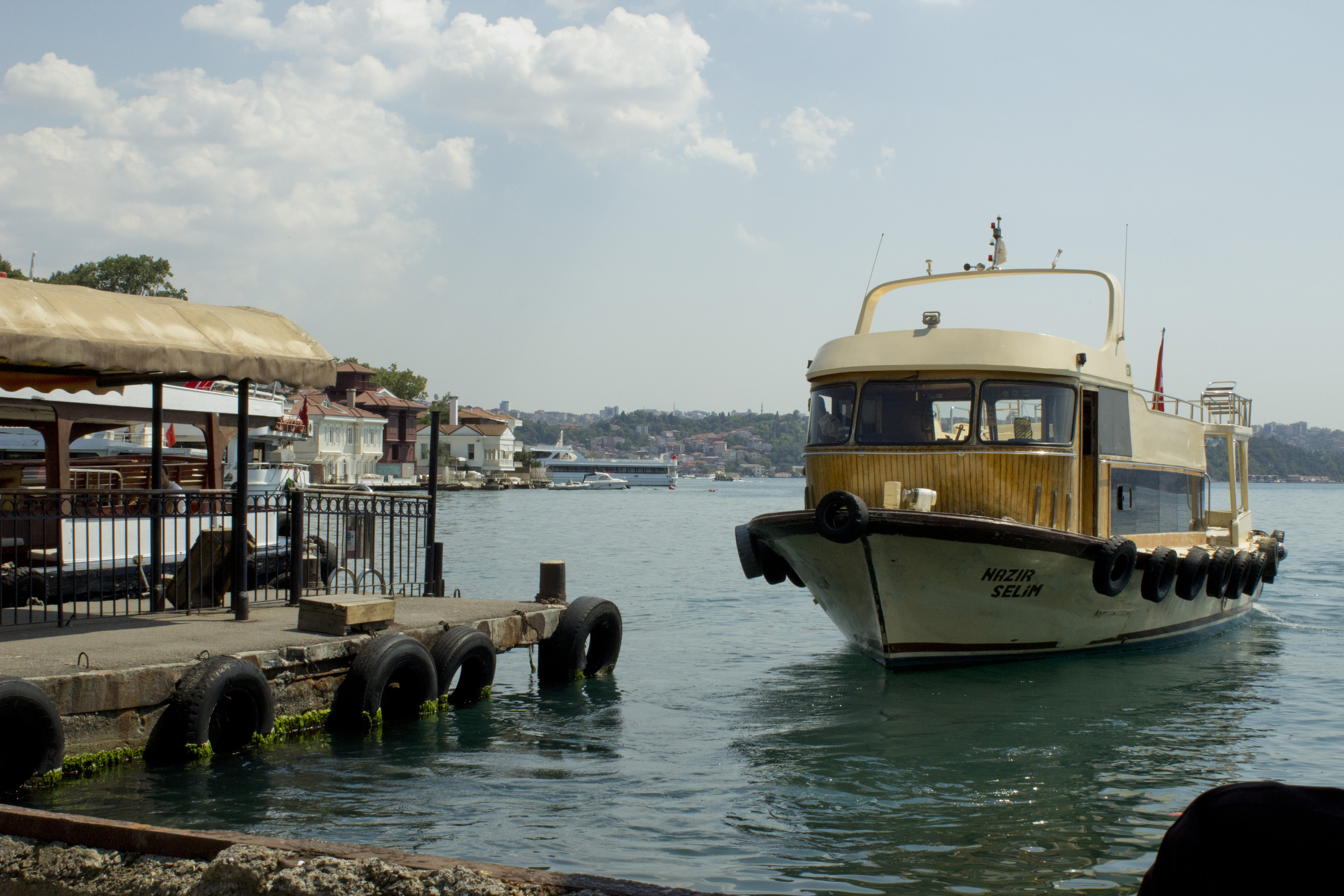 A ferry leaving the station at Yalıköy, Beykoz, Istanbul